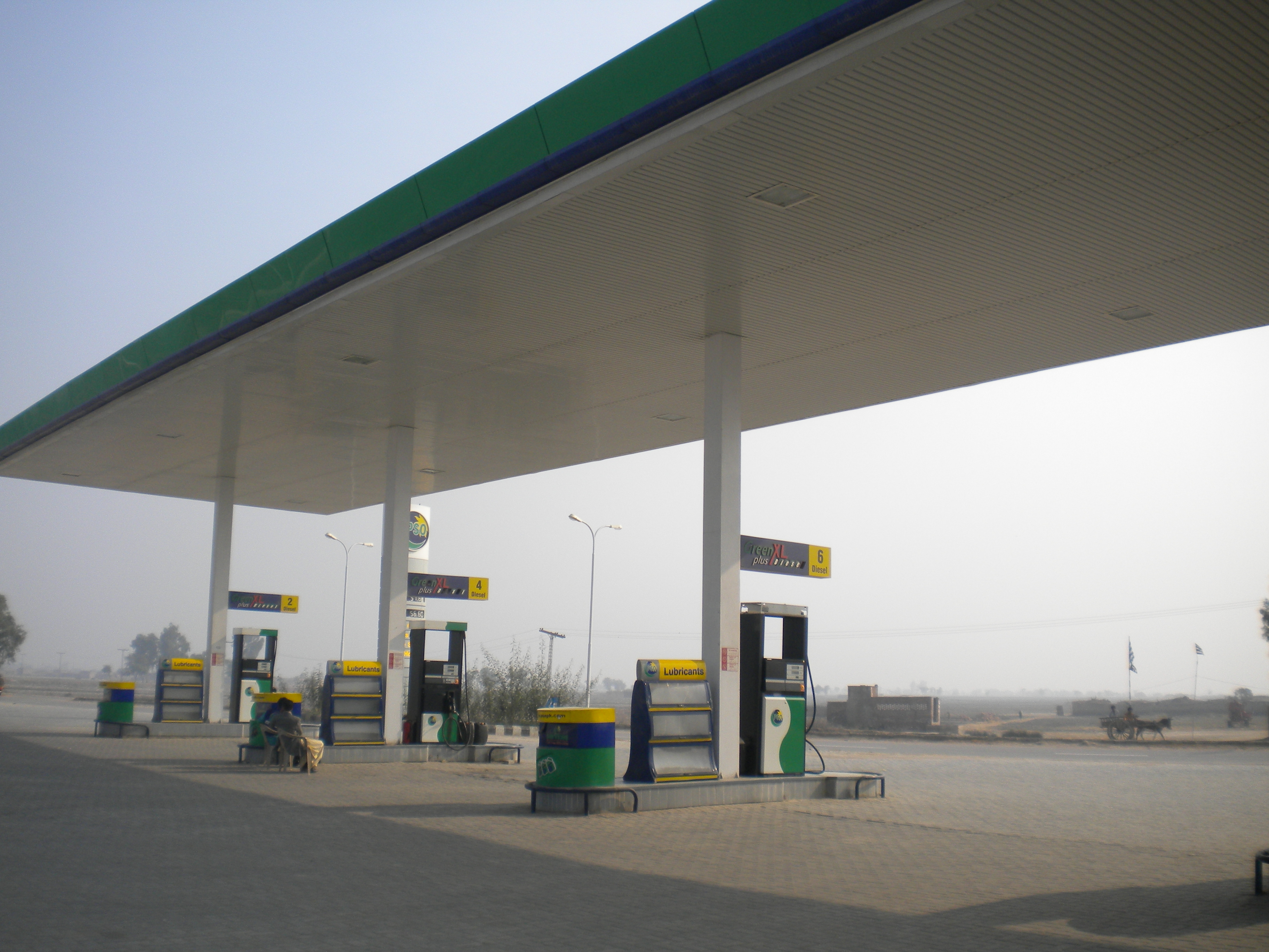 Petrol Pump At Highway